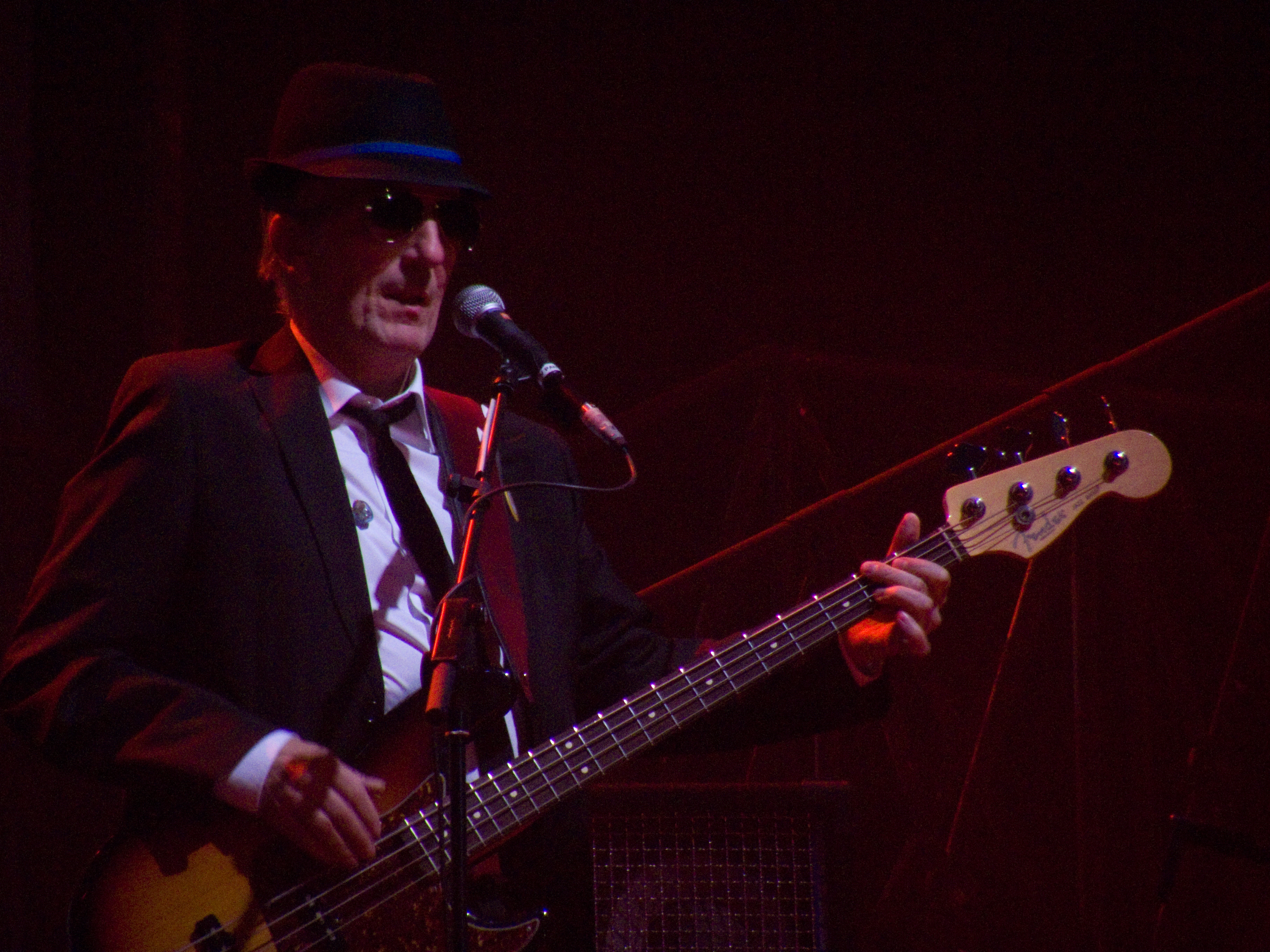 Pancho Varona during a concert of the "Vinagre y rosas" Tour in Madrid (Spain)